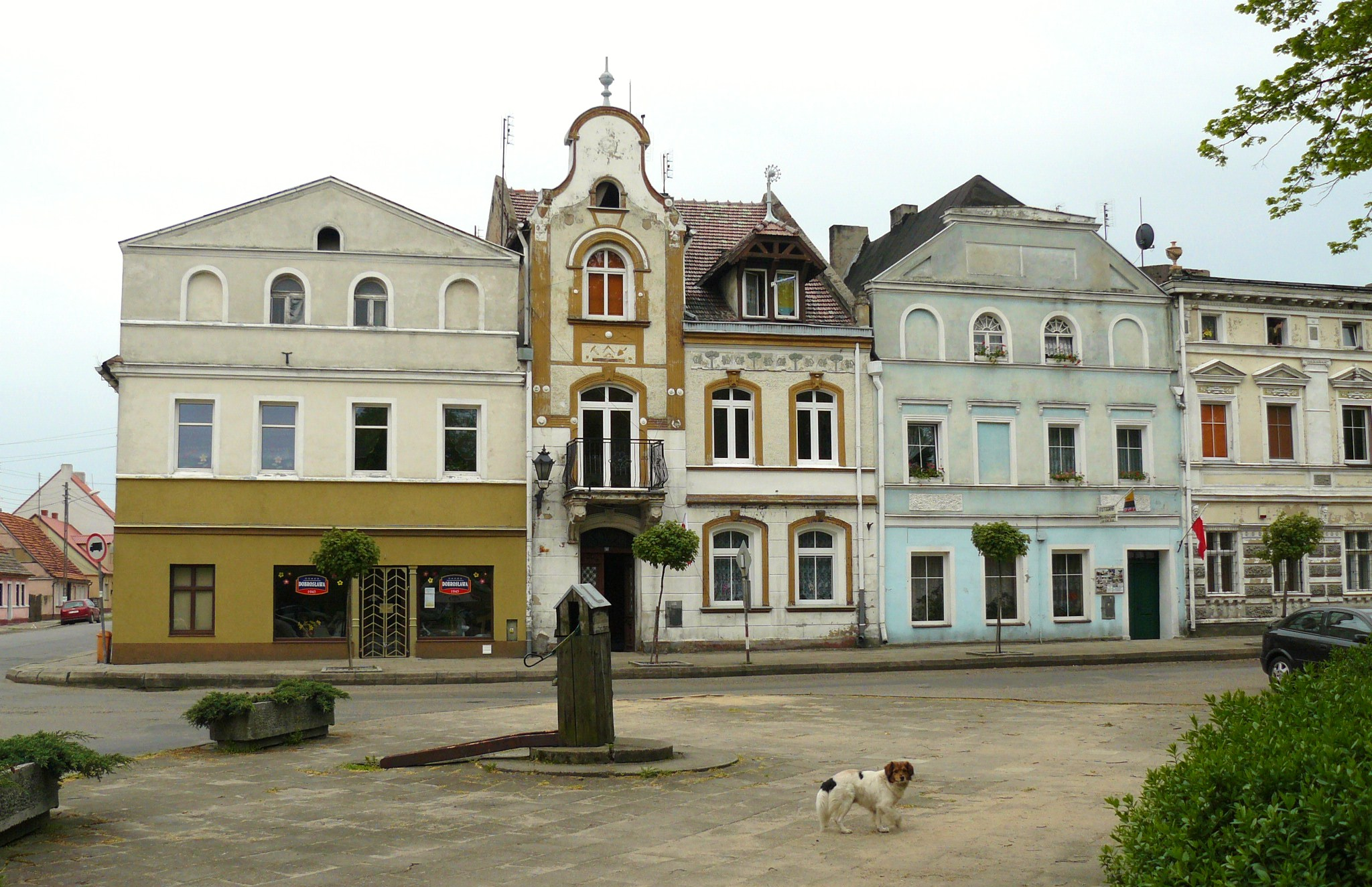 Szlichtyngowa - Old Market.